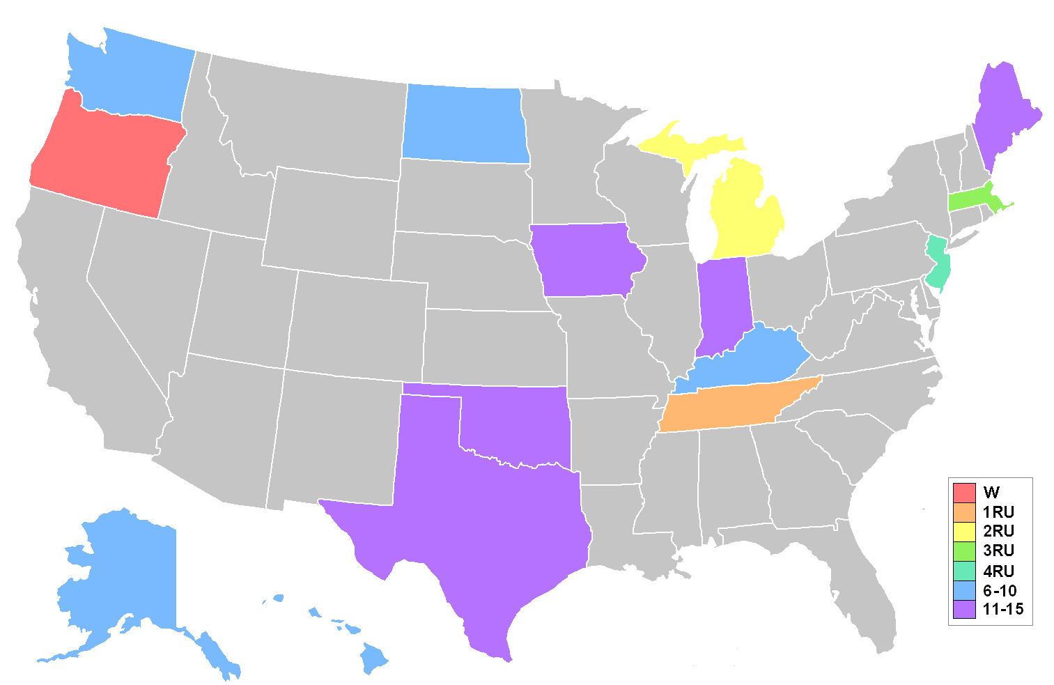 Map showing placements at the Miss Teen USA 2003 pageant. Key on graphic shows colour coding for break down of placements.